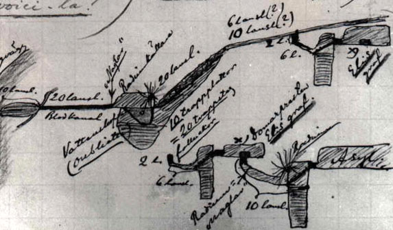 Sketched map related to Juva's works on the Arch of covenant.